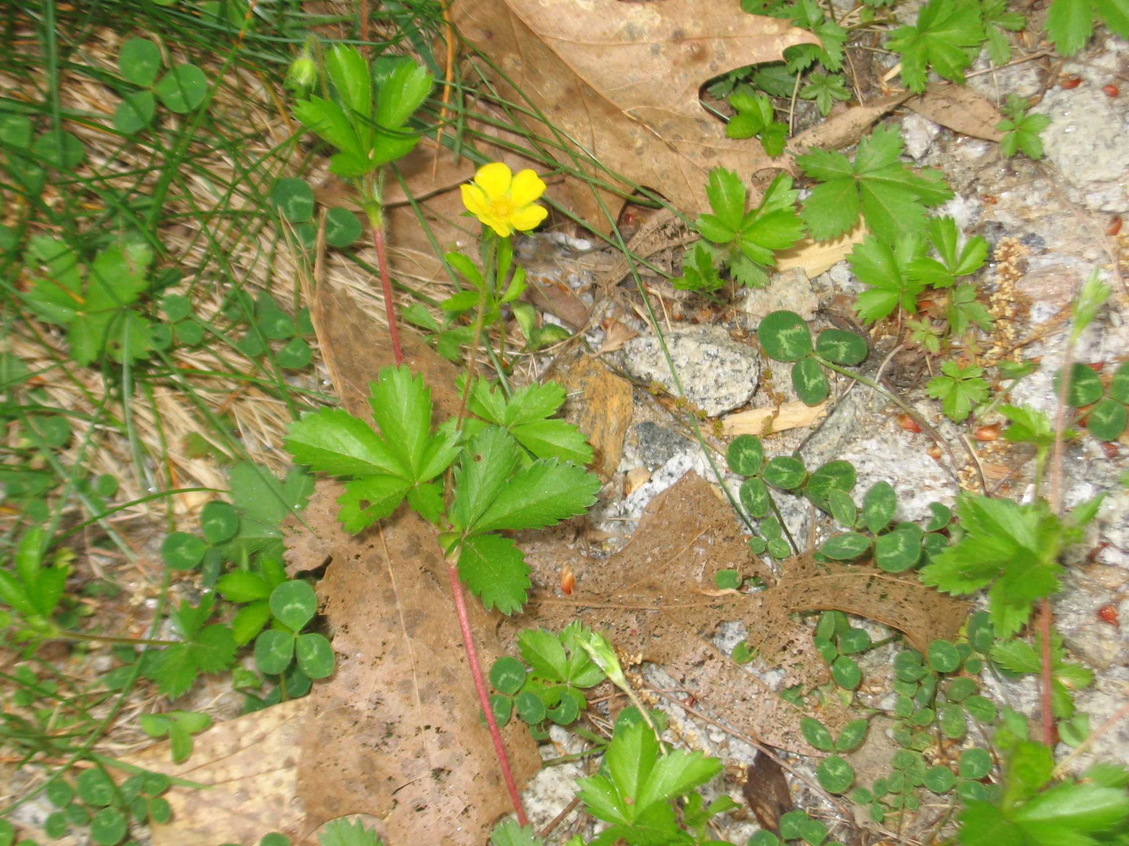 Photo of a Cinquefoil Potentilla canadensis? plant in bloom.